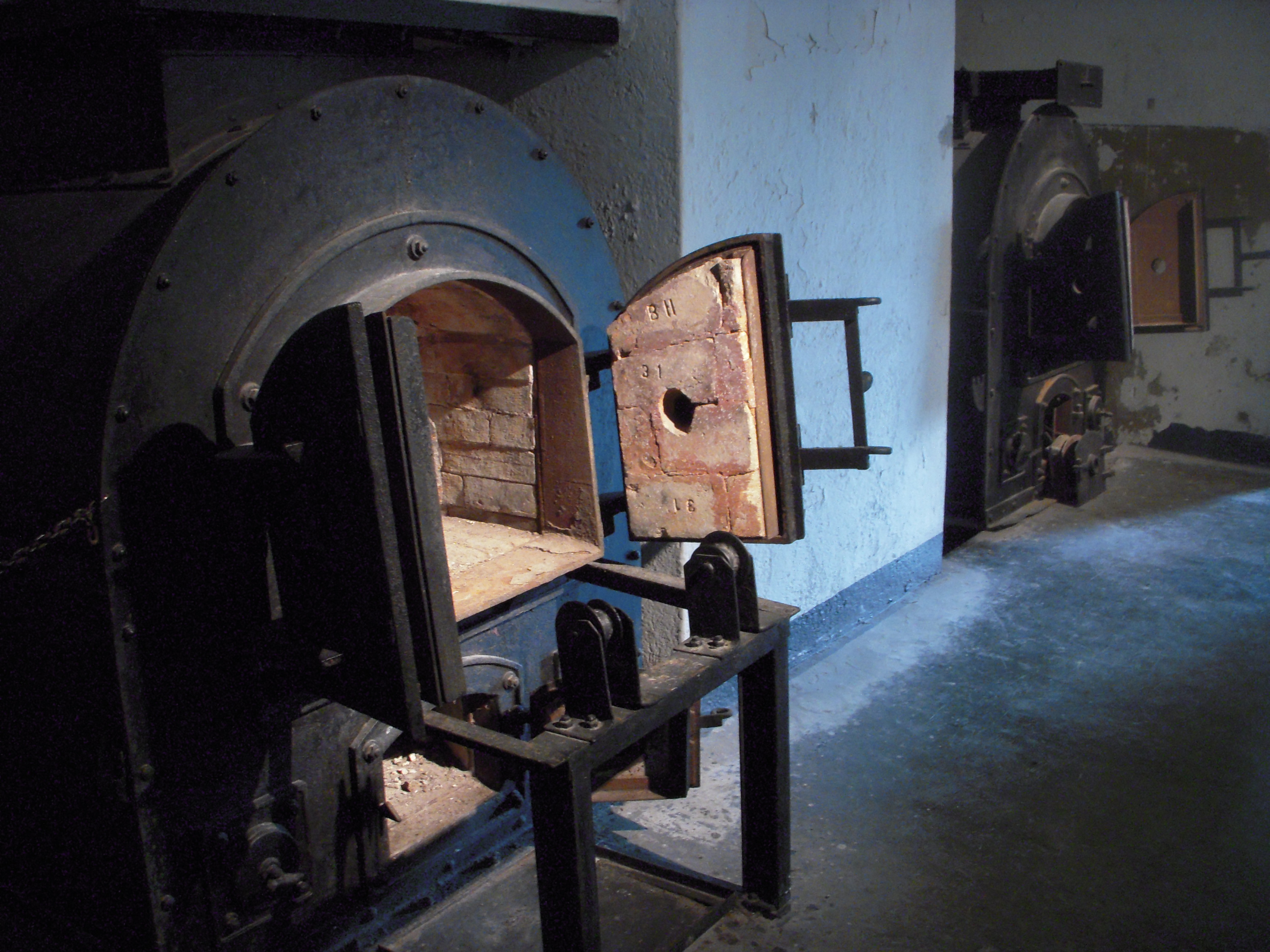 The crematoria in the KZ-camp Dora-Mittelbau near Nordhausen in Harz, Germany. May 9, 2009.